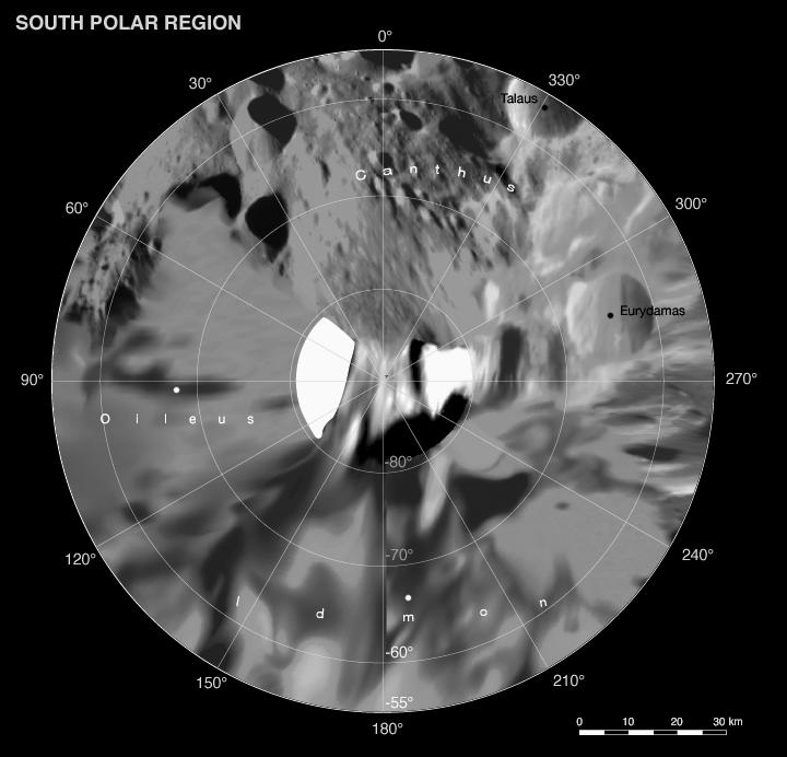 map of Phoebe, south polar projection